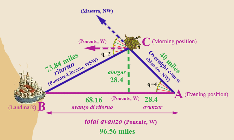 Application of the Rule of Marteloio to find the distance between a ship and a shore landmark by triangulaton. The ship spots the landmark due West in the evening. After sailing on a NW bearing overnight for 40 miles, it sees the same landmark in the morning at West-southwest (WSW). By applying the Rule of Marteloio to this triangulation problem, the navigator can estimate the distance of the landmark from the ship.